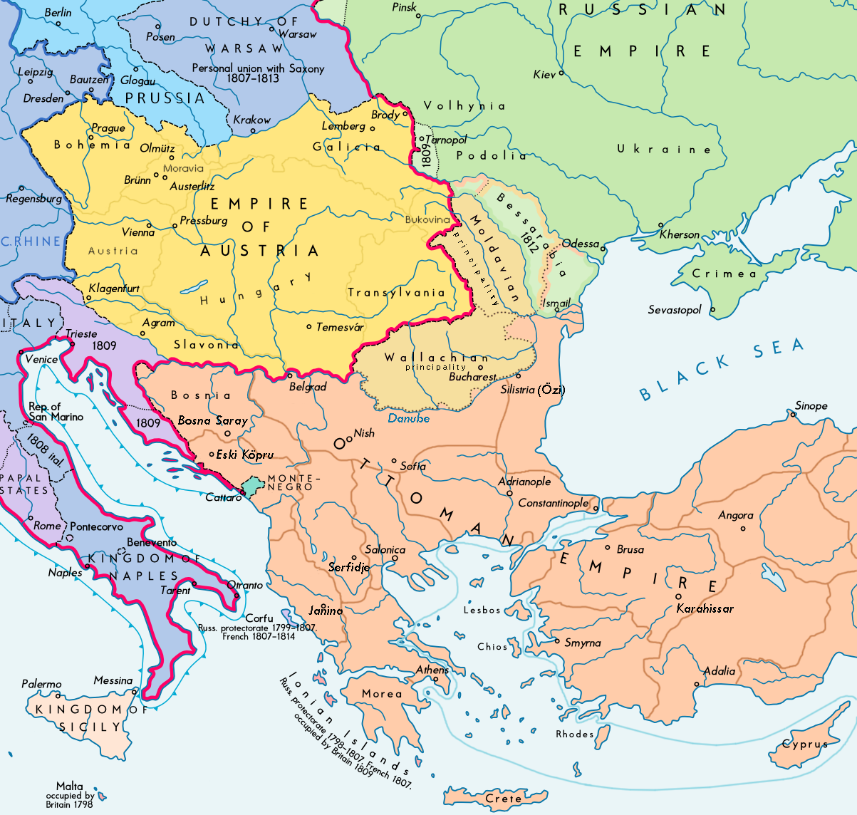 Southeast Europe in 1812 (before Napoleon's Russian Campaign ; according with H.E.Stier (dir.) Grosser Atlas zur Weltgeschichte, Westermann 1984, p.119, ISBN 3141009198, & all sources, the Danubian principalities were not turkish provinces but vassal christian states (ruled by Greek hospodars), and the russian Bessarabia were, before 1812, a part of the Moldavian principality (north side) and of the Ottoman empire (south side) : see little changes 02-05-2014)